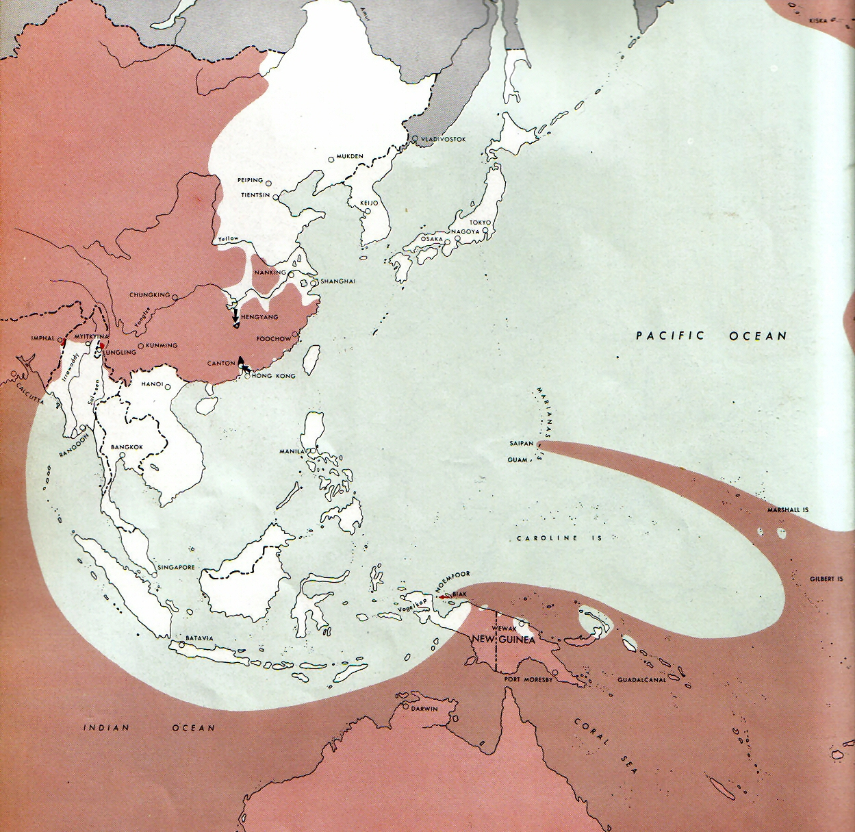 Map of the front against Japan as of 15 July 1944: This map is taken from the source "Atlas of the World Battle Fronts in Semimonthly Phases to August 15th 1945: Supplement to The Biennial report of The Chief of Staff of the United States Army July 1, 1943 to June 30 1945 To the Secretary of War". (See Cover, Forward and Map details)